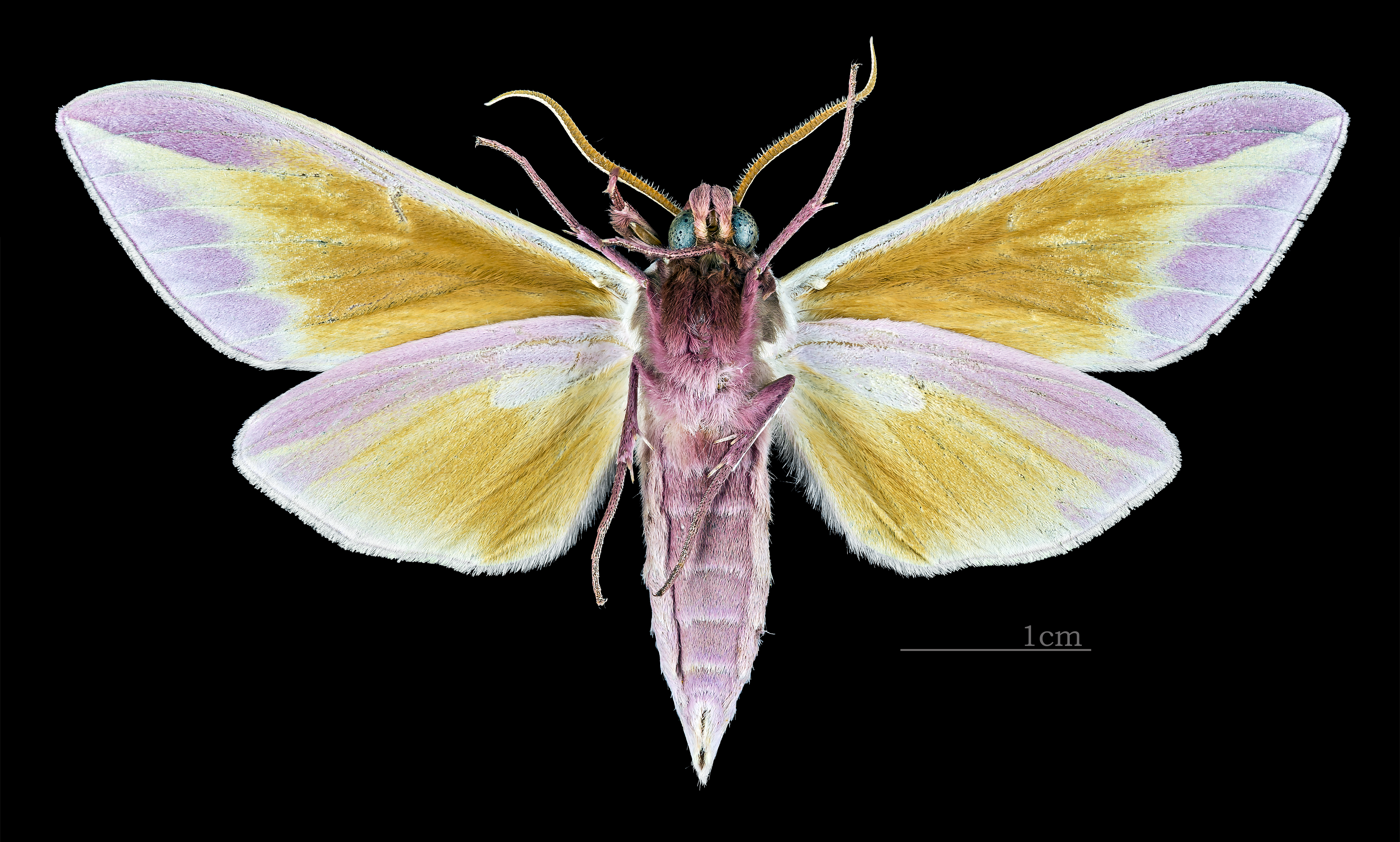 Leucophlebia lineata - △ Ventral side Collection of the Mathematician Laurent Schwartz